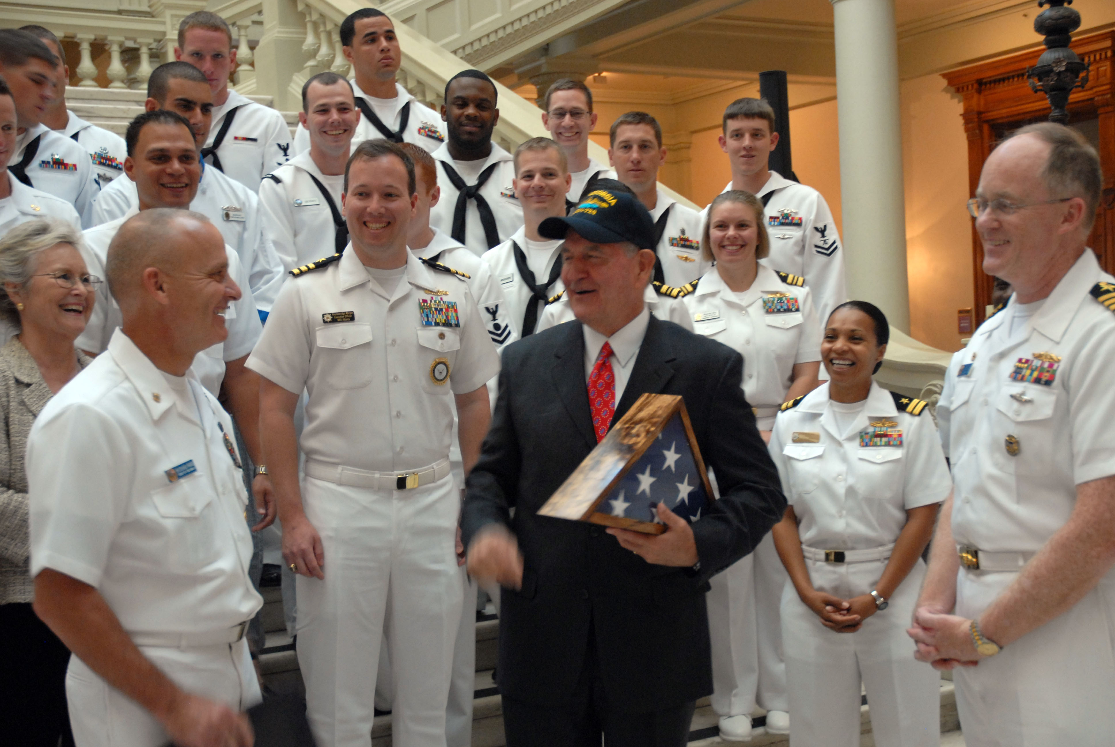 ATLANTA (Oct. 13, 2010) Georgia Gov. Sonny Perdue, center, is presented a command ball cap by Master Chief Richard Rose, left, command master chief of the Ohio-class guided-missile submarine USS Georgia (SSGN 729) as Capt. Michael Cockey, commanding officer of Ohio, looks on after the Atlanta Navy Week 2010 Proclamation ceremony. Atlanta Navy Week is one of 19 Navy weeks planned across America in 2010. Navy weeks show Americans the investment they have made in their Navy and increase awareness in cities that do not have a significant Navy presence. (U.S. Navy photo by Mass Communication Specialist 1st Class Katrina Sartain/Released)